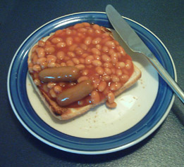 Watties baked beans and sausages on toast. From my on toast series. (see Vegemite). I had a knife out to butter the toast first, but couldn't be bothered. The piece of toast was the last crust in a loaf of bread.